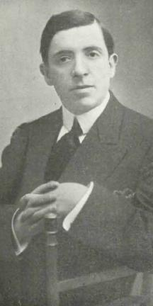 Spanish Writer Francisco Villaespesa